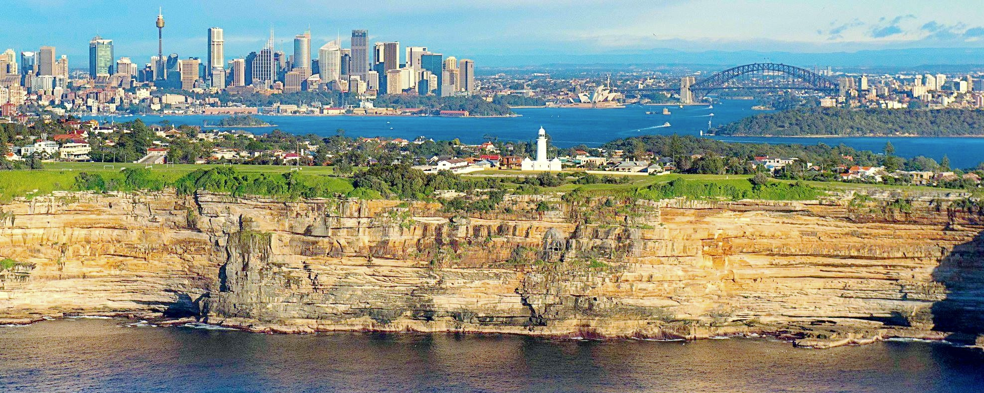 A panoramic view of the Sydney skyline overlooking the clifftop suburbs Vaucluse and Dover Heights.